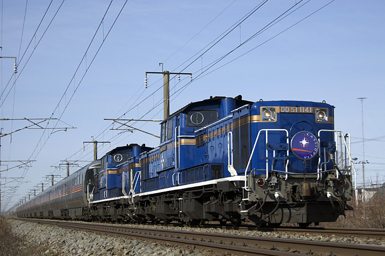 JR Hokkaido Class DD51 diesel locomotives and E26 series passenger cars on the "Cassiopeia" sleeping car service